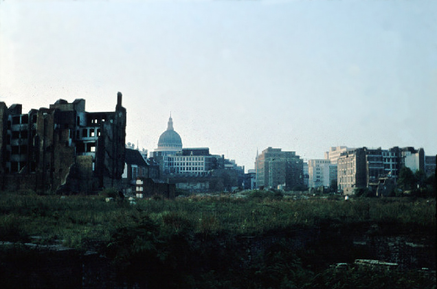 Bomb Damage nr. St. Paul's. Although taken in 1959, 14 years after the war, this picture starkly shows how much damage remained unrepaired at that date. Picture scanned from an old Agfacolor slide.